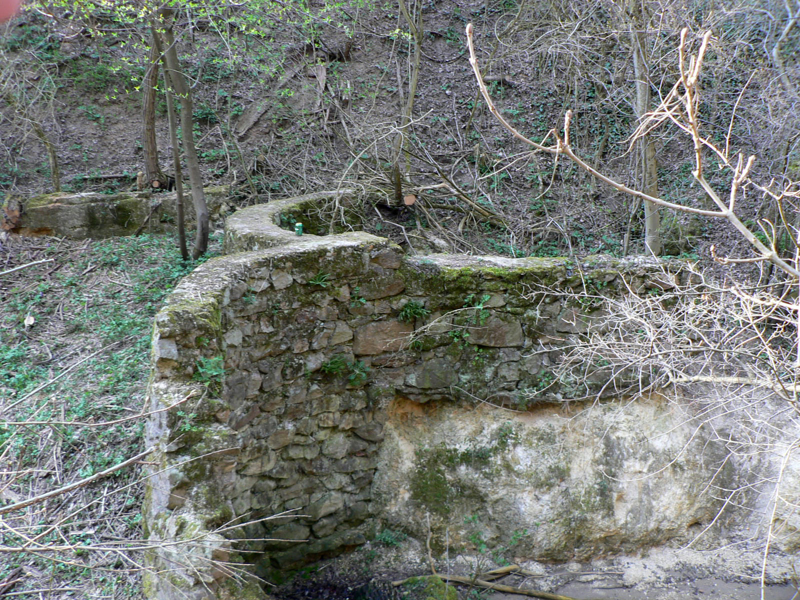 Jegenye-völgy strandfürdő romjai